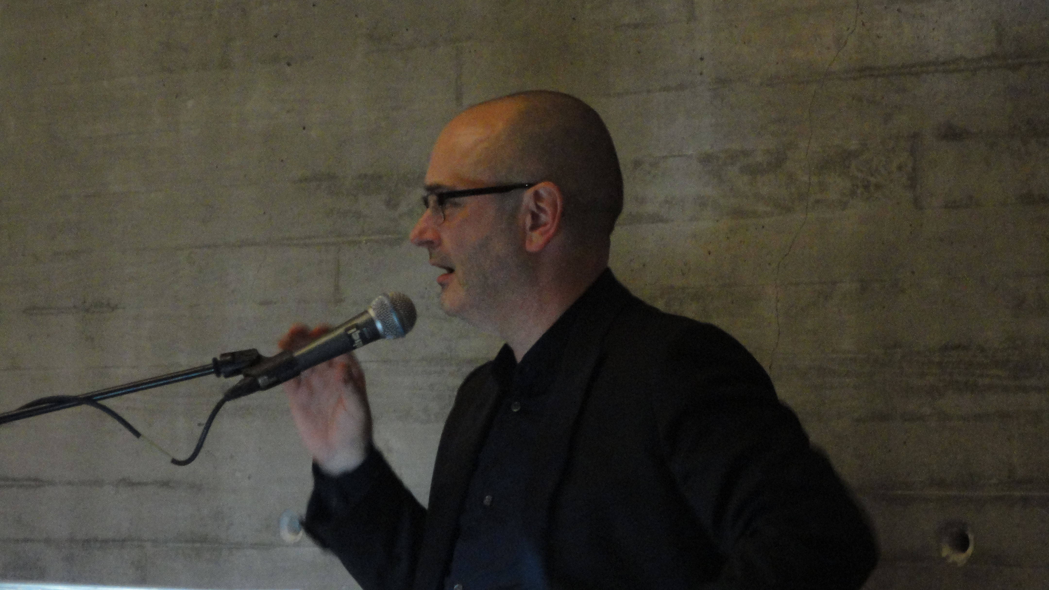 Douglas Gordon at the Opening of the "I am also… Douglas Gordon" Exhibition at Tel Aviv Museum of Art, Tel Aviv-Yaffo